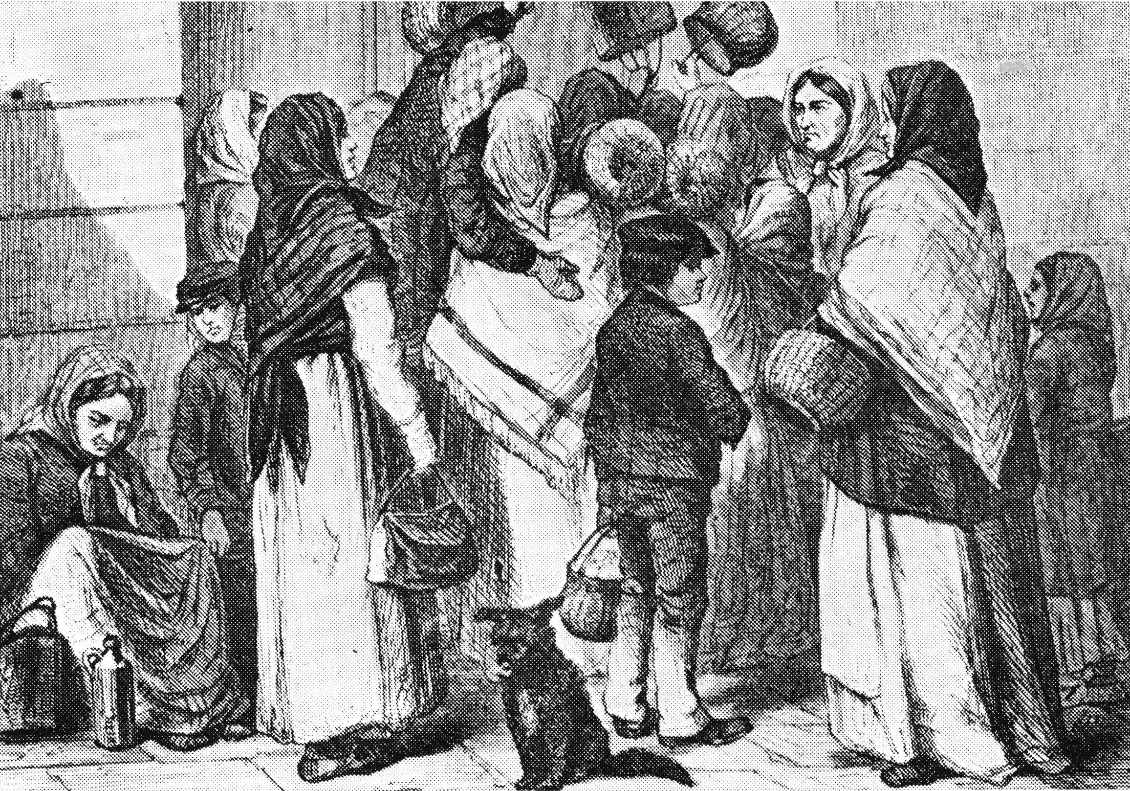 An early morning outside the Opera Tavern in Stockholm, with a gang of beggars waiting for delivery of the scraps from yesterday.